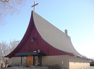 Edward D. Dart custom designed church.